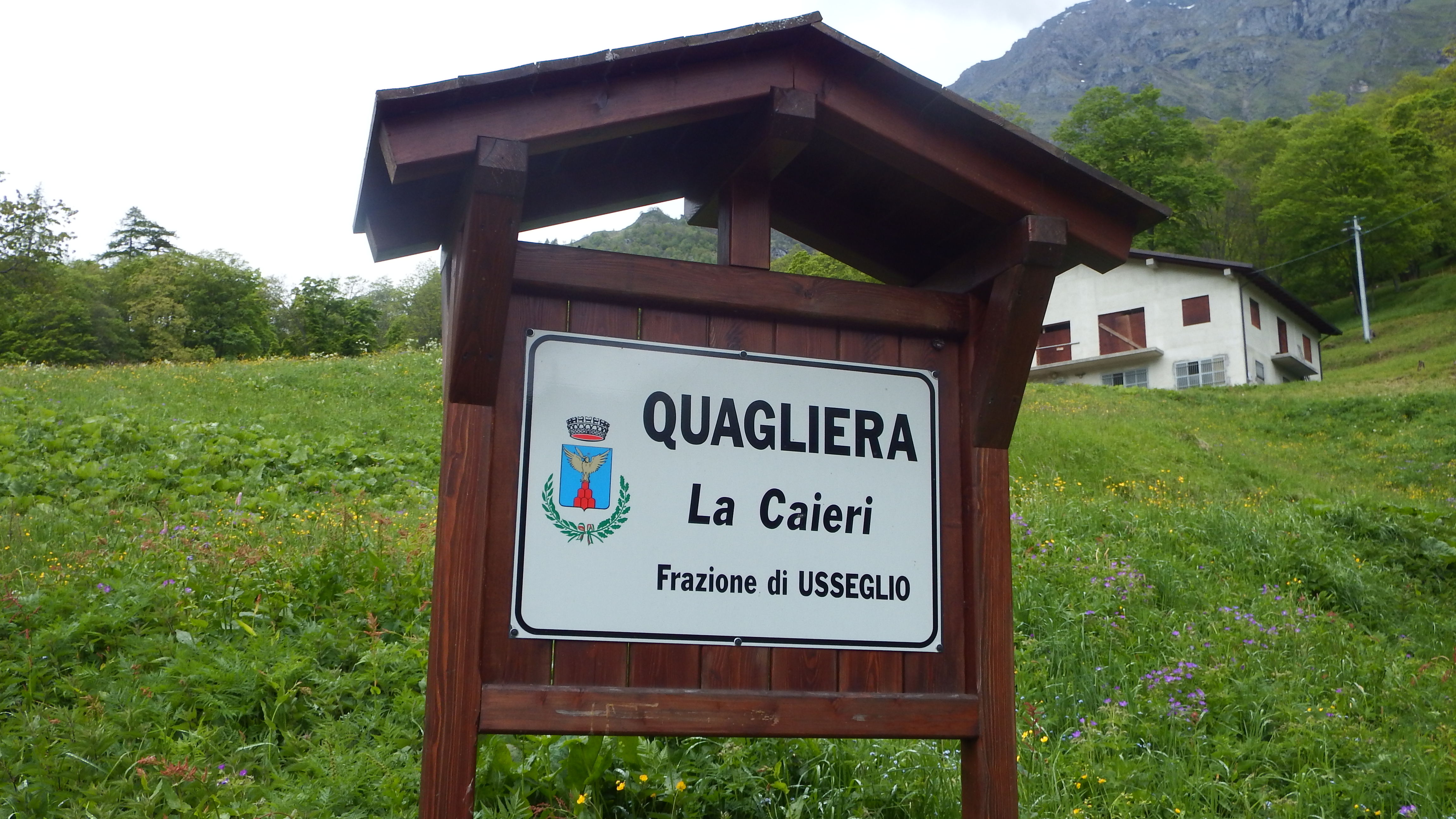 Sign Fraction Quagliera